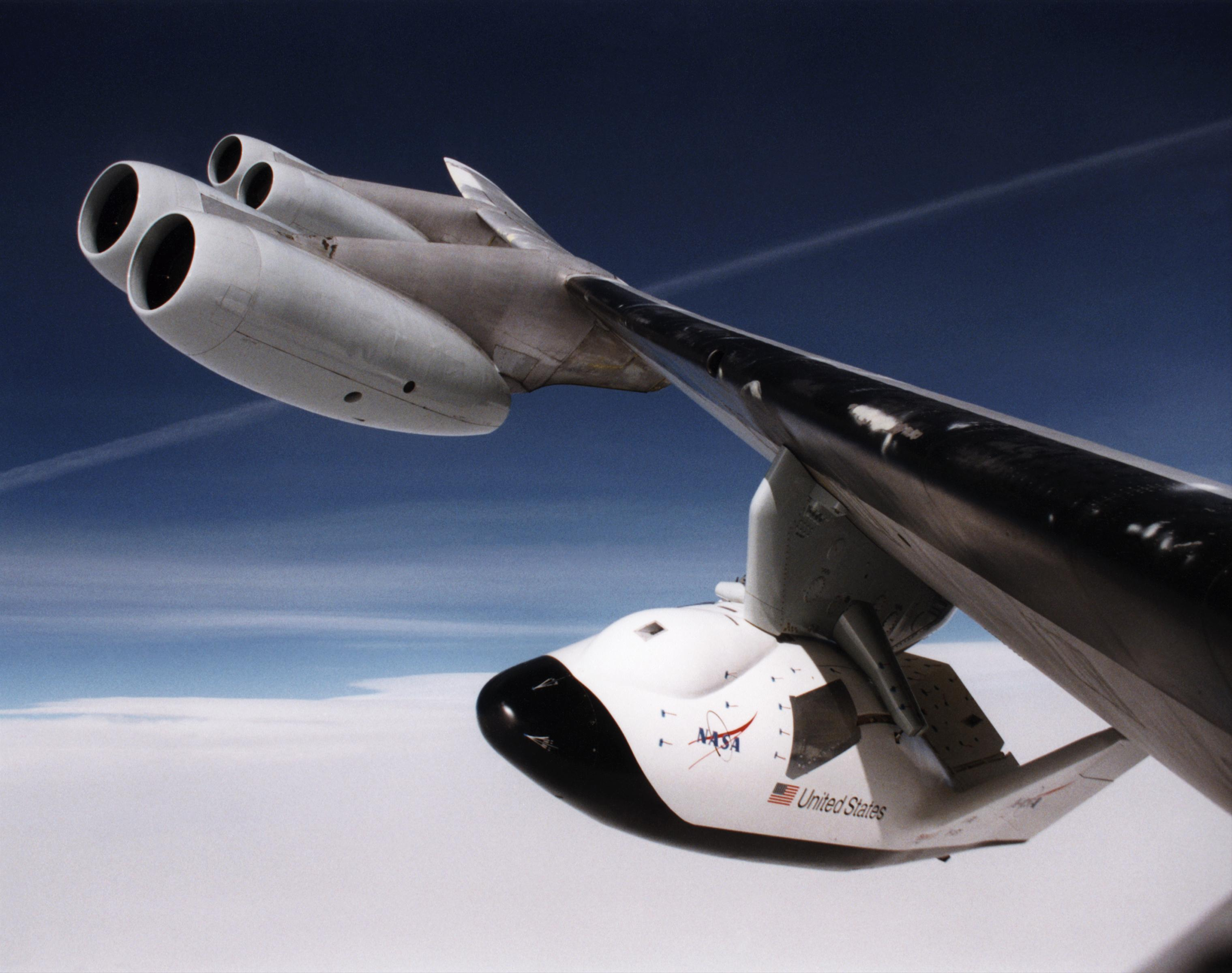 A unique, close-up view of the X-38 (Crew Return Vehicle) under the wing of NASA's B-52 mothership prior to launch of the lifting-body research vehicle. The photo was taken from the observation window of the B-52 bomber as it banked in flight. The X-38 Crew Return Vehicle (CRV) research project is designed to develop the technology for a prototype emergency crew return vehicle or lifeboat for the International Space Station.